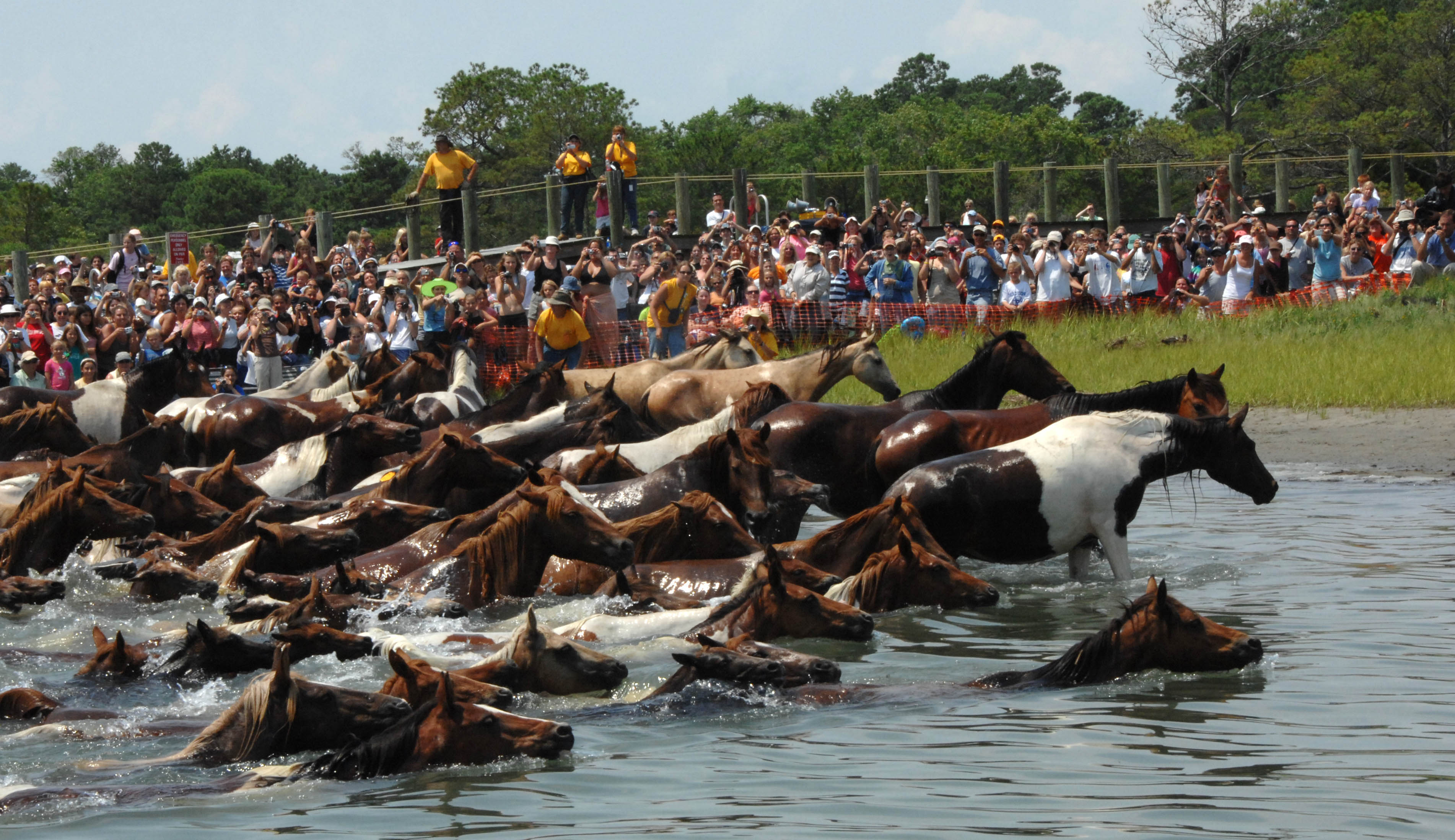 The 82nd Annual Chincoteague Pony Swim featured more than 200 wild ponies swimming across the Assateague Channel into Chincoteague, Virginia.